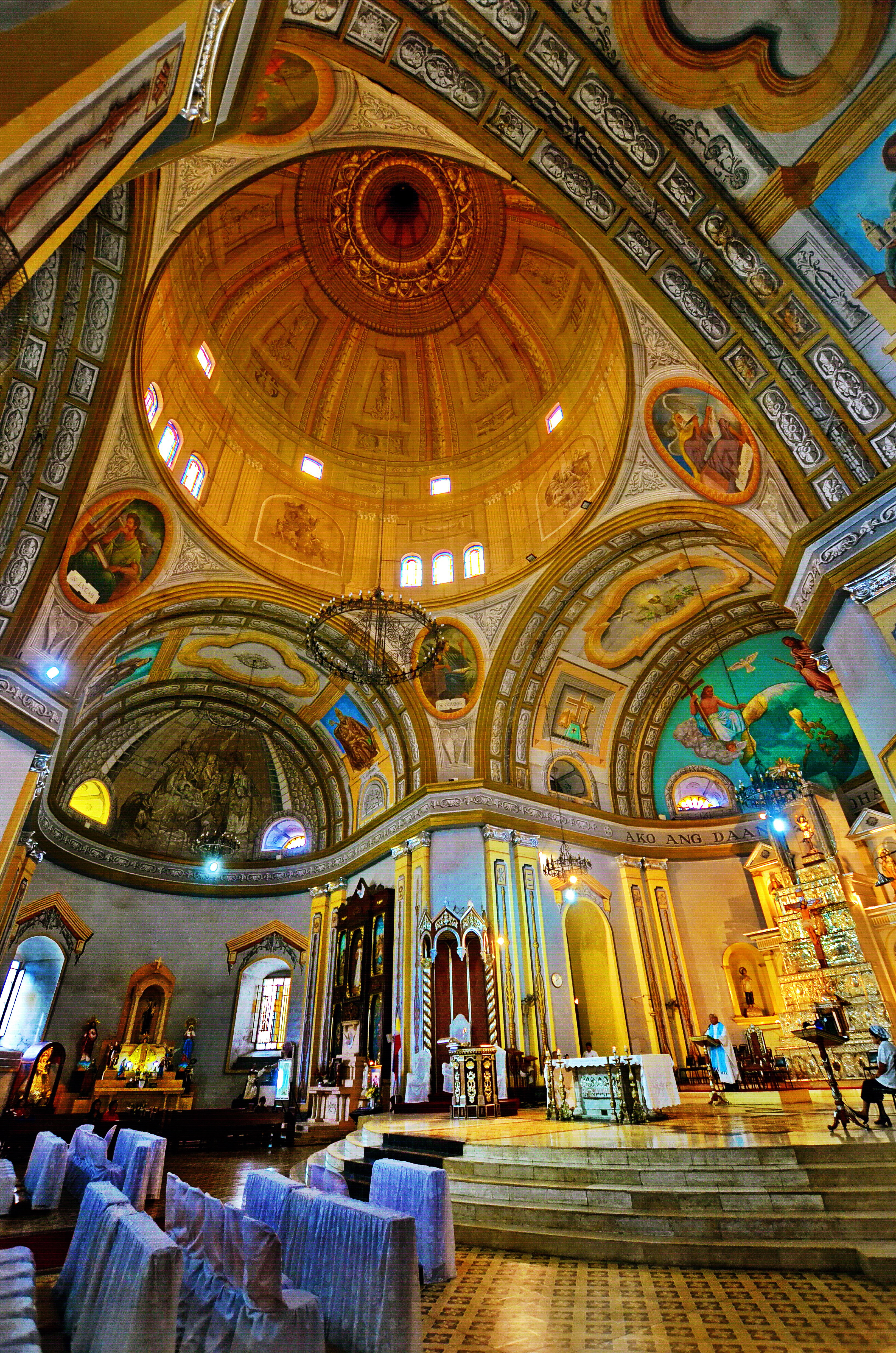 San Sebastian Cathedral Lipa City